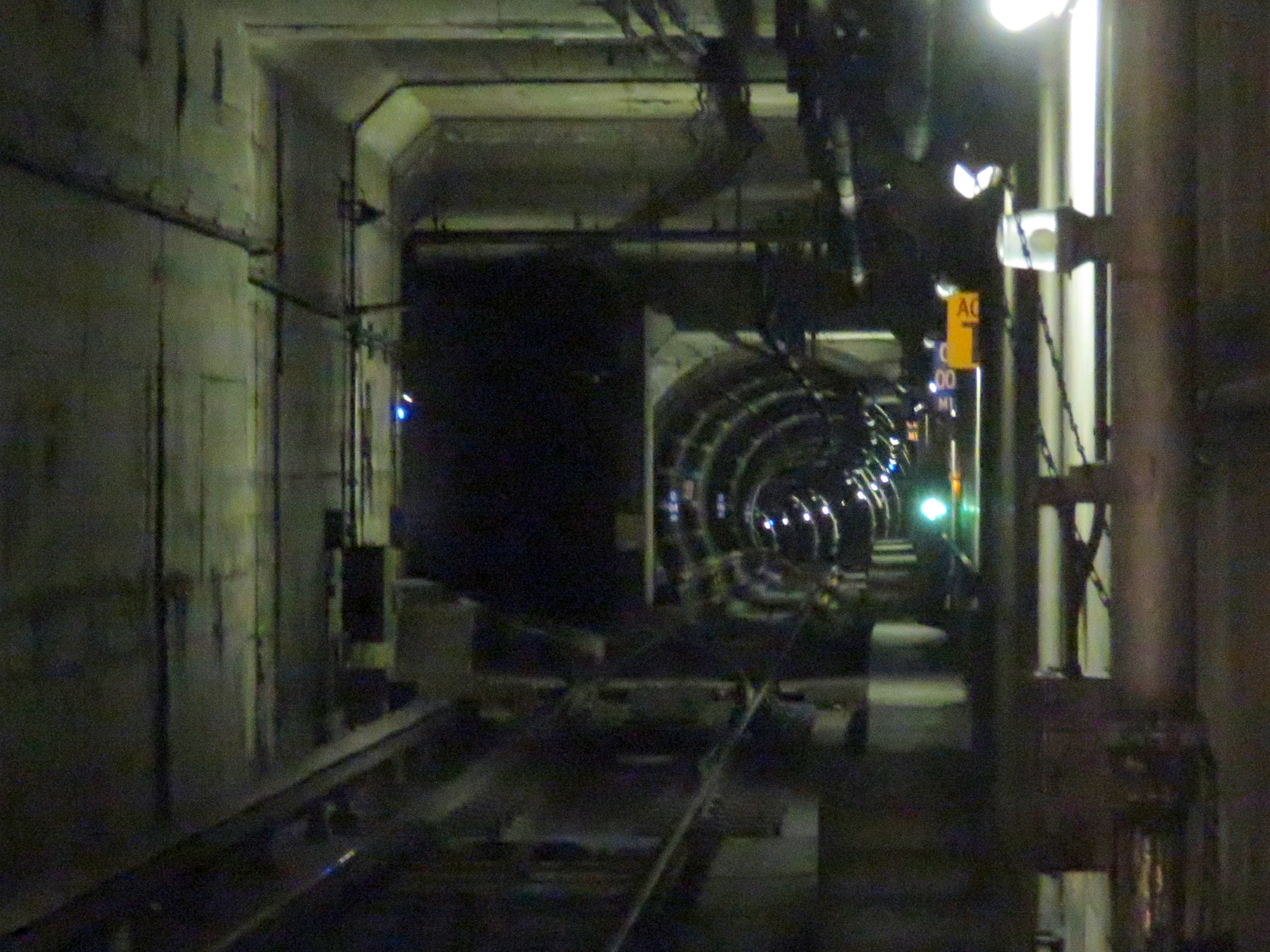 A junction in the Oakland Wye viewed from the lower platform at 12th Street station in July 2019. The C2 track turns left towards the A-Line (to Lake Merritt and beyond), while the M2 track runs straight towards the M-Line (to West Oakland and the Transbay Tube).